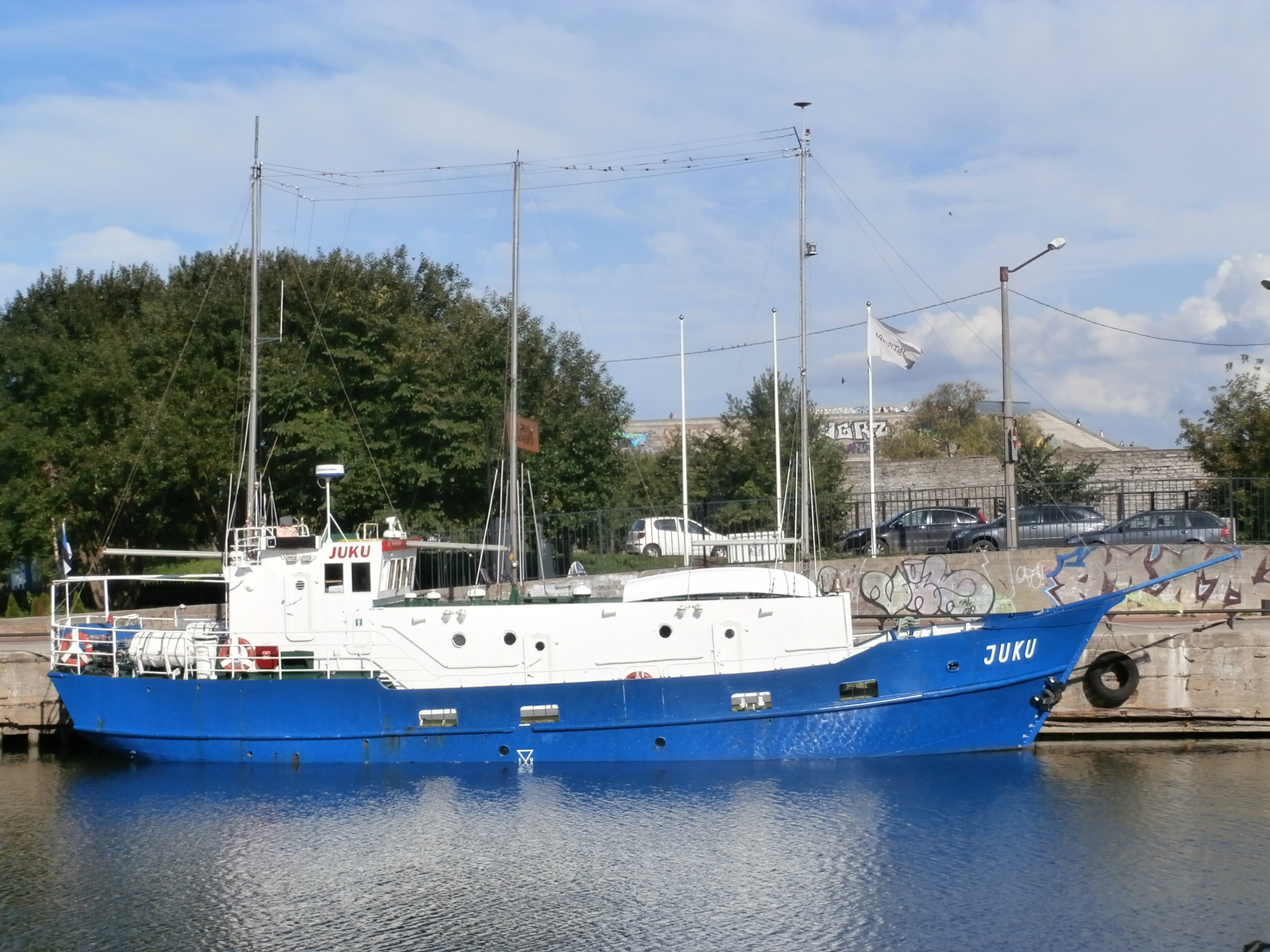 Juku Starboard Side Kalasadam Tallinn 28 August 2013